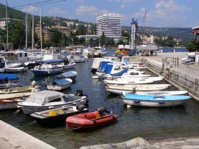 The marina in Opatija, Croatia